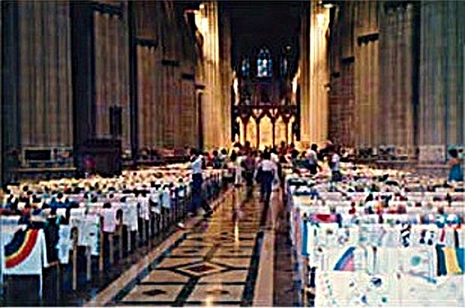 Hundreds of Ribbons line the pews of the Washington National Cathedral on the eve of the Ribbon event.